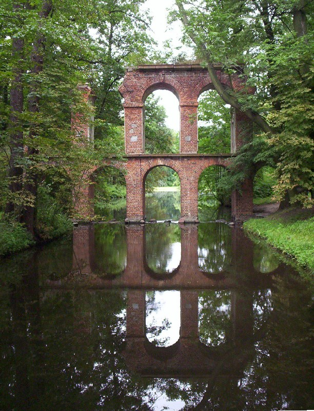 The Aqueduct (on river Łupia-Skierniewka) - park in Arkadia, Poland.